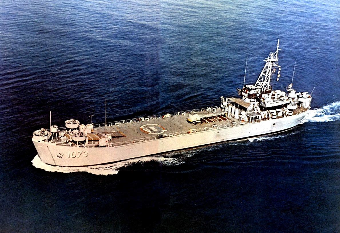 The U.S. Navy tank landing ship USS Outagamie County (LST-1073) underway.